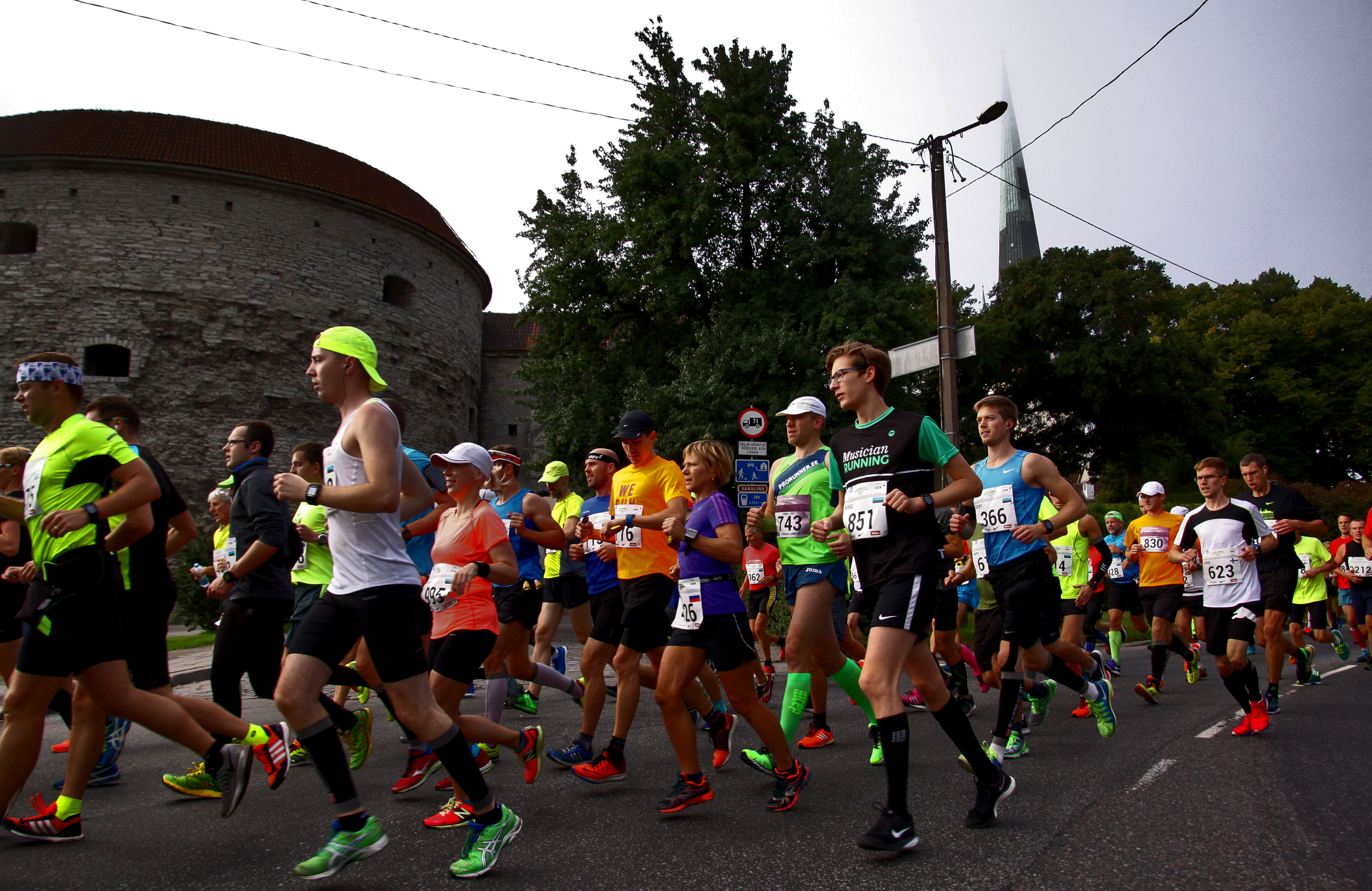 Tallinn. Watching the marathon.